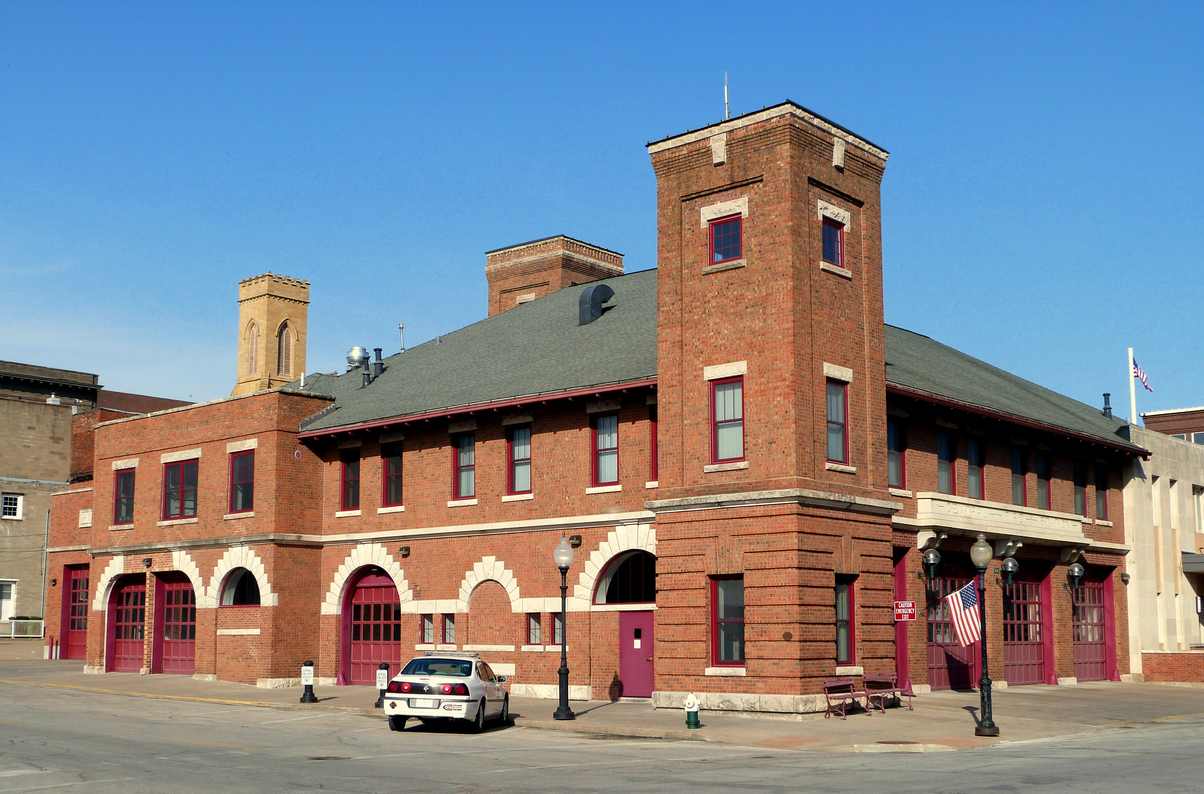 The historic Burlington Fire and Police Station (built 1907), located at 418 Valley Street in Burlington, Iowa, United States, is listed as a key contributing resource in the West Jefferson Street Historic District. The historic district is listed on the US National Register of Historic Places.